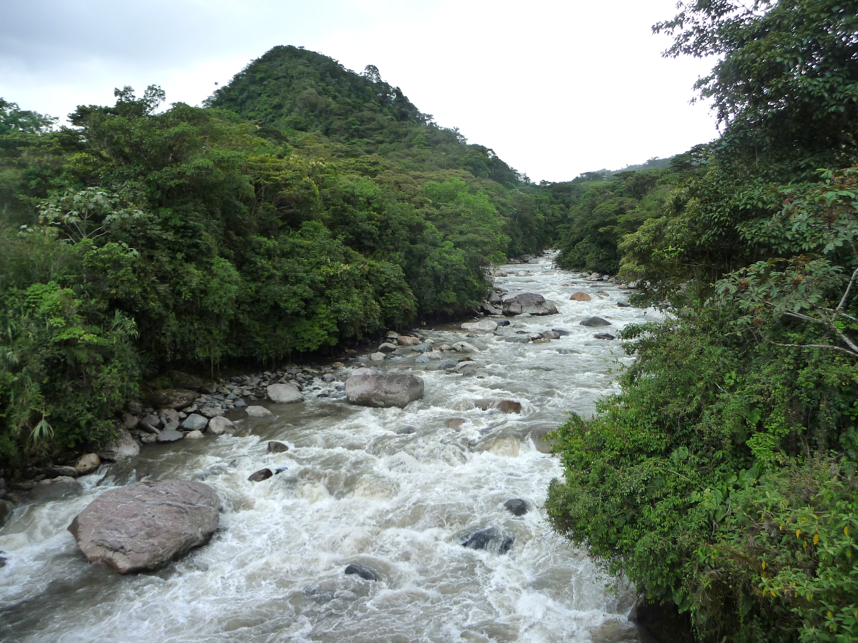 The Topo River (Tungurahua, Ecuador).